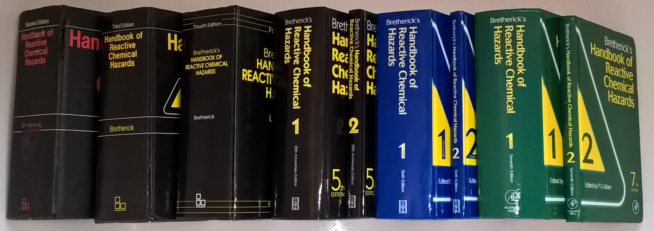 Brethderick's Handbook of Reactive Chemical Hazards, 2nd to 7th edition